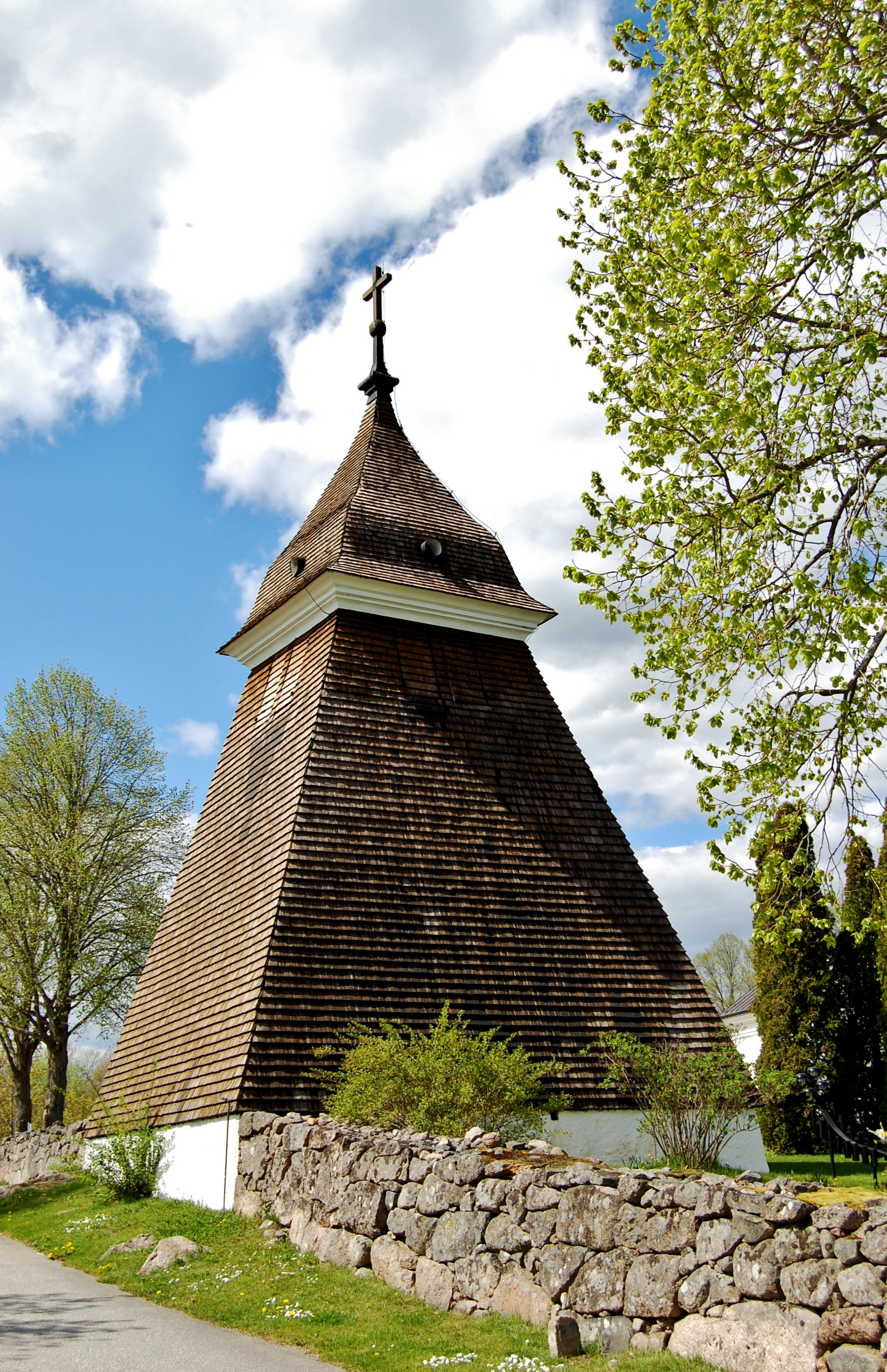 Eringsboda kyrka.Klock tower redeveloped in 1788-1789.